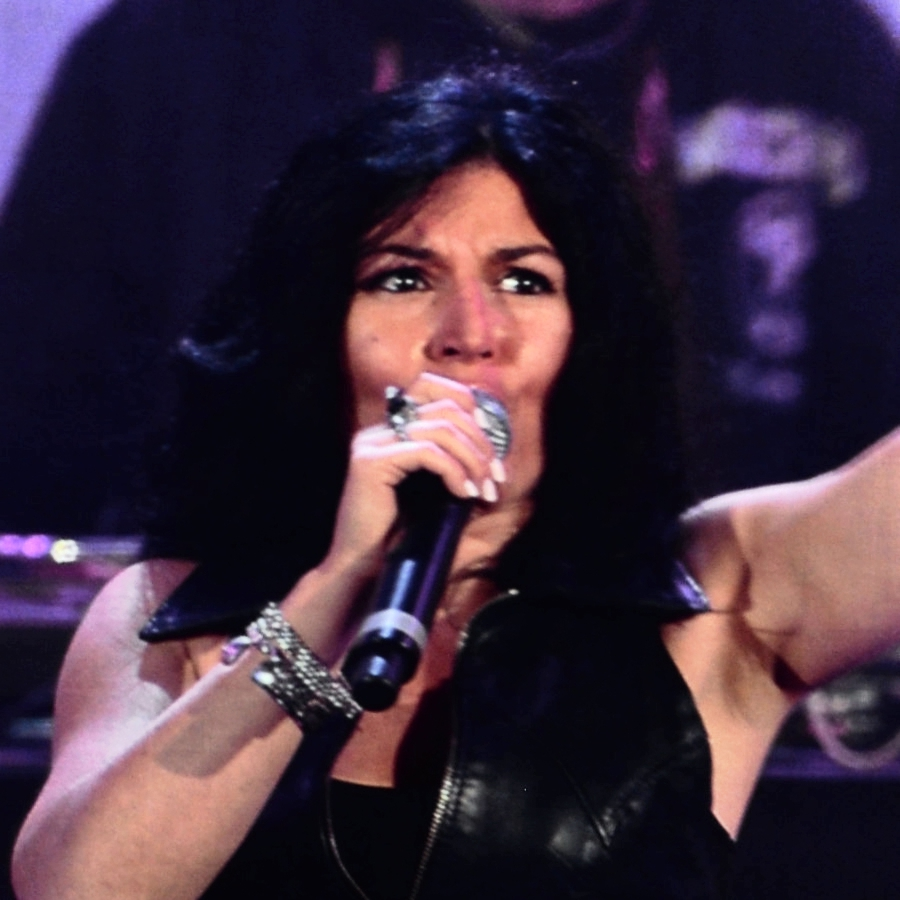 Giusy Ferreri during the Wind Music Awards 2016 ceremony at Verona Arena